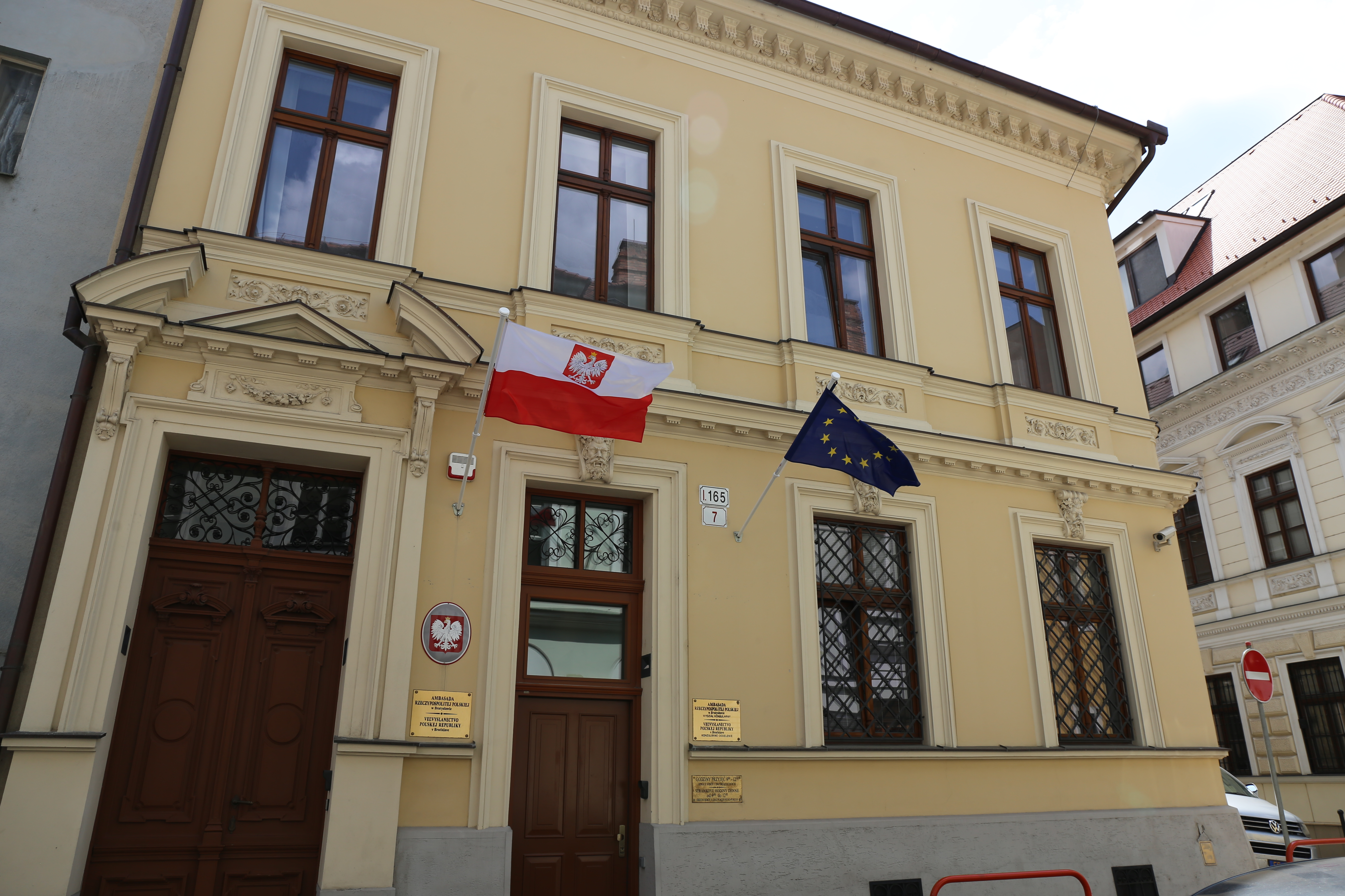 Embassie of Poland in Bratislava